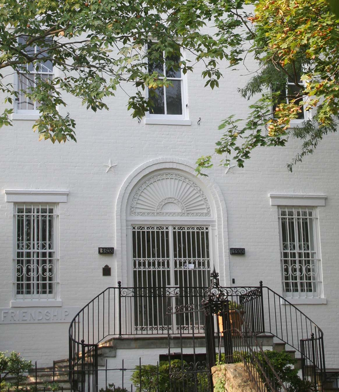 Former home of: Evalyn Walsh McLean (Mining Heiress, Socialite, Last Owner of the Hope Diamond) Located: 3308 R St. NW, near Wisconsin Ave NW, Washington, D.C.